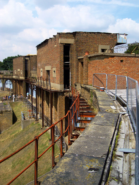 Coalhouse Fort control tower